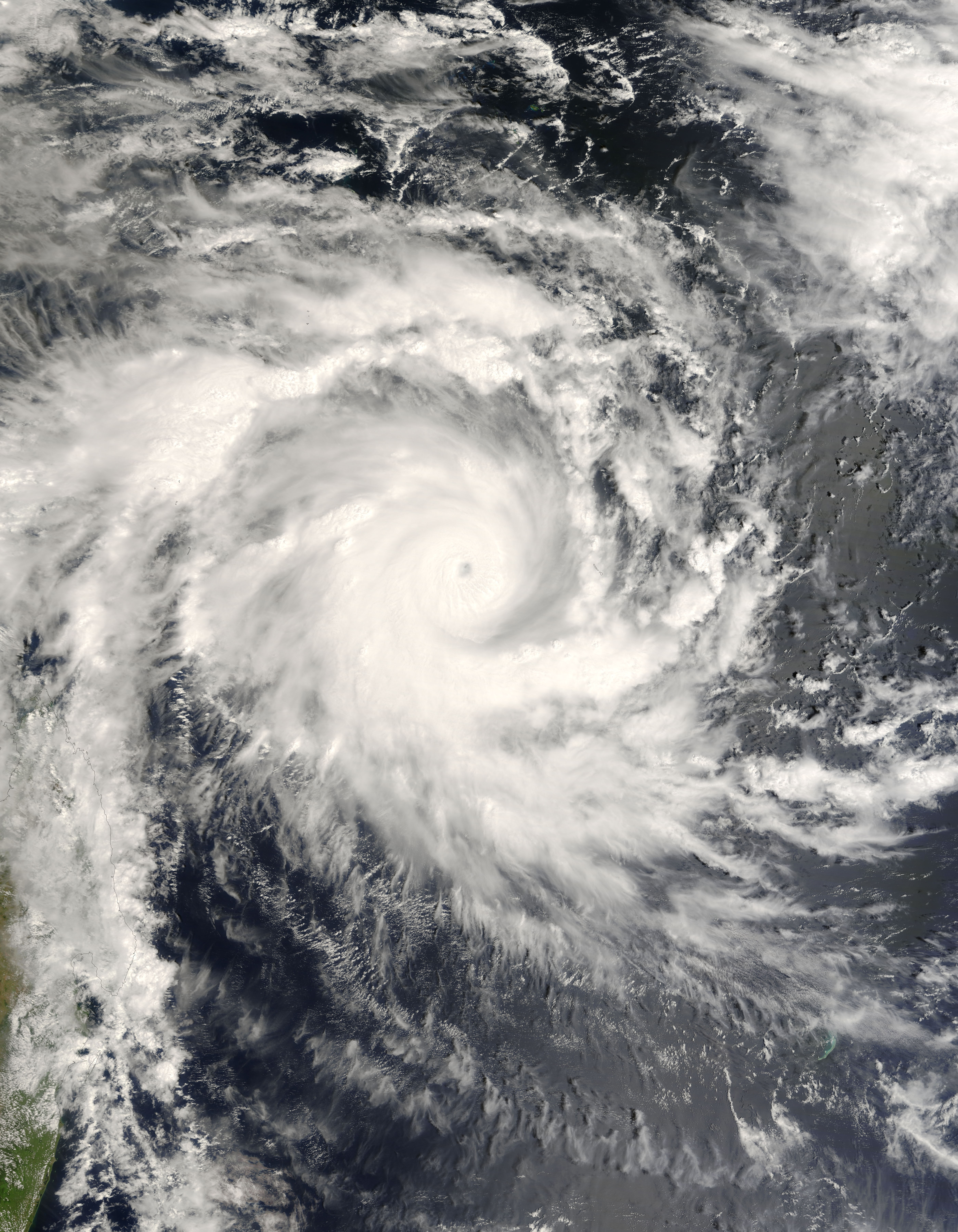 The Seychelles are a chain of islands stretching out north of Madagascar off the eastern coast of Africa. On December 20, 2006, these islands were on alert for the very intense tropical cyclone Bondo which was predicted to strike the islands in the early hours of the next day. Cyclone Bondo was a Category 4 strength storm on the Saffir-Simpson scale, with sustained winds as high as 222 kilometers per hour (138 miles per hour), according to the Reuters news service. This photo-like image was acquired by the Moderate Resolution Imaging Spectroradiometer (MODIS) on the Terra satellite on December 20, 2006, at 9:35 a.m. local time (6:35 UTC), while the storm’s center was drawing in towards the Seychelles. The island of Madagascar appears to the southwest of the storm (lower left corner) where the outer rain bands from the storm were coming ashore. Bondo had well-defined spiral arms of rainclouds and thunderstorms at the time of this image, and a strong and clear cloud-filled (or “closed”) eye at its center. The high-resolution image provided above is at MODIS’ full spatial resolution (level of detail) of 250 meters per pixel. The MODIS Rapid Response System provides this image at additional resolutions.